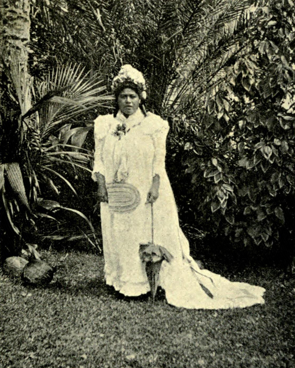 The Queen of Niuē around 1902.